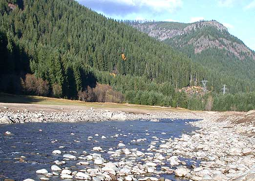 The Breitenbush River in western Oregon, north of Detroit along Oregon State Highway 224.